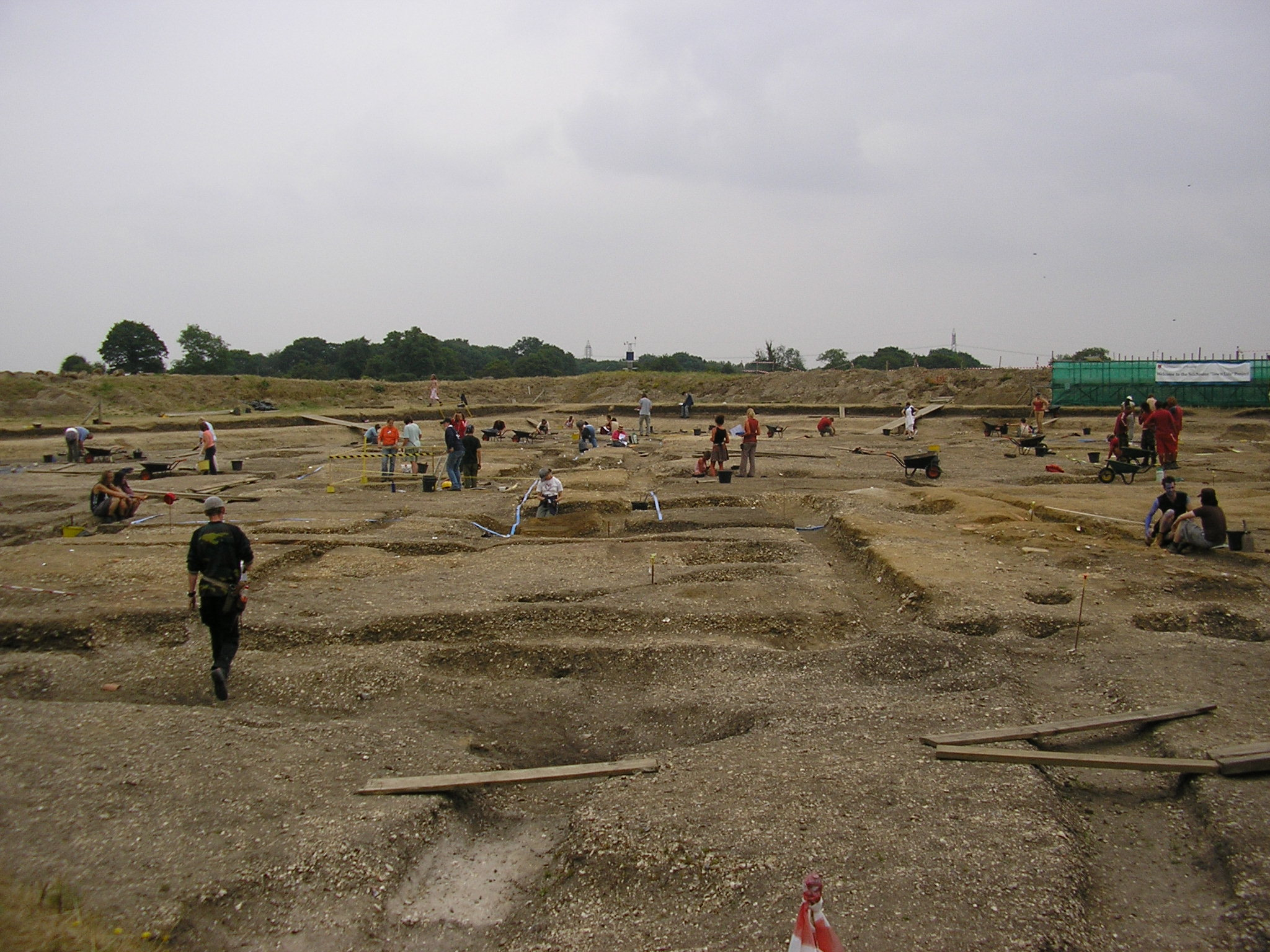 Excavations at Silchester Roman Town. Self-made, taken July '05.